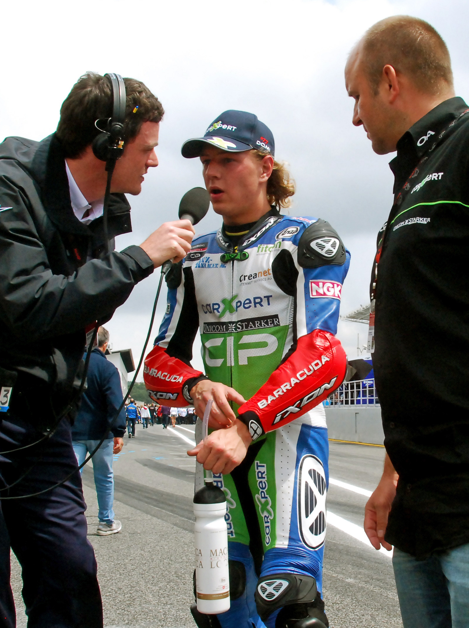 Dominique Aegerter 2011 Estoril This is cropped version. Original size is here